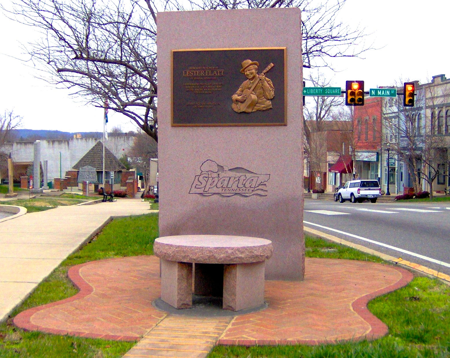 Memorial to bluegrass musician Lester Flatt (1914-1979) in Sparta, Tennessee, located in the Southeastern United States. Flatt, born a few miles to the north in Overton County, spent most of his life in Sparta. This memorial is located at Liberty Square, in front of the White County Courthouse. The plaque reads: Dedicated in honor of LESTER FLATT of Sparta, Tennessee Lester Raymond Flatt (1914-1979) was one of the forefathers of the American Bluegrass style of music. Liberty Square — Sparta, TN October 13, 2001 A Tennessee Historical Commission marker is located a few blocks to the east at the junction of US-70 and Flatt Street, and reads: He was born at Duncans Chapel near the boundary of Putnam and Overton Counties, Tennessee, and moved to Sparta at an early age where he made his permanent home. A bluegrass music pioneer and composer, Mr. Flatt was also a member of the Grand Ole Opry, and star of radio, television, and the movies. He performed at Carnegie Hall and entertained audiences around the world as the "Baron of Bluegrass Music." He is buried in the Sparta Oaklawn Memorial Cemetery."